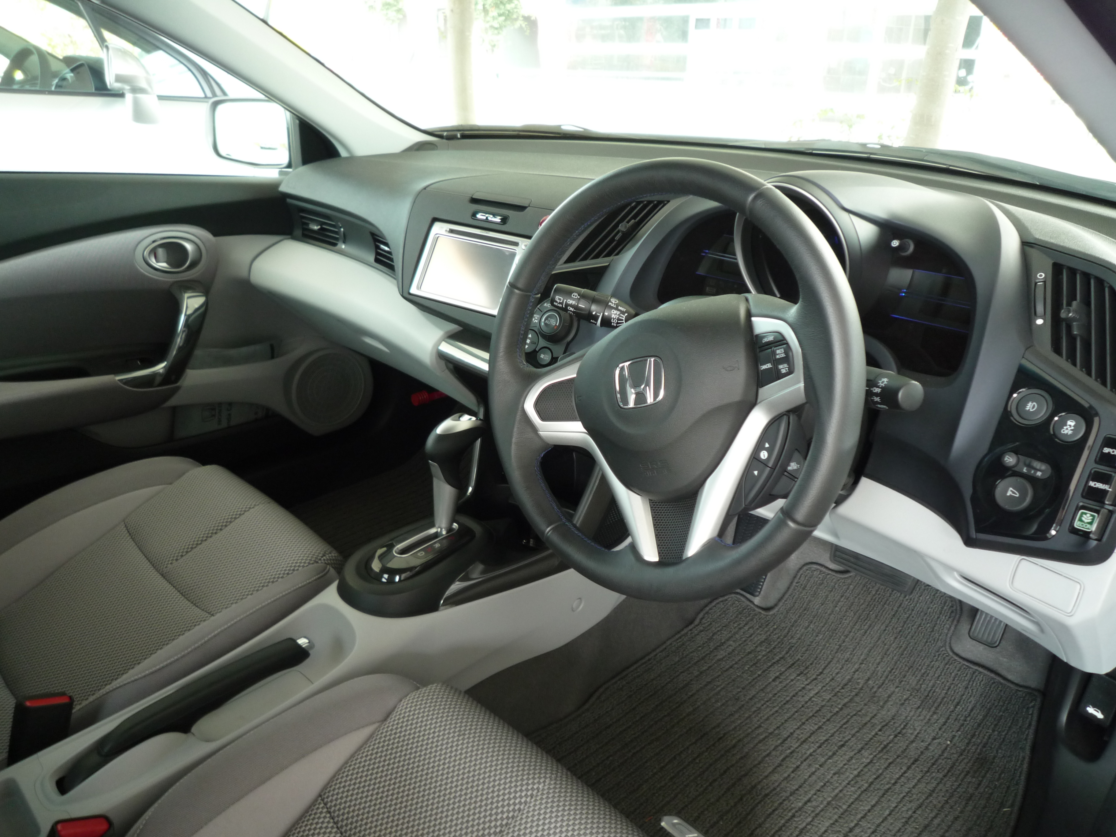 Honda CR-Z interior.